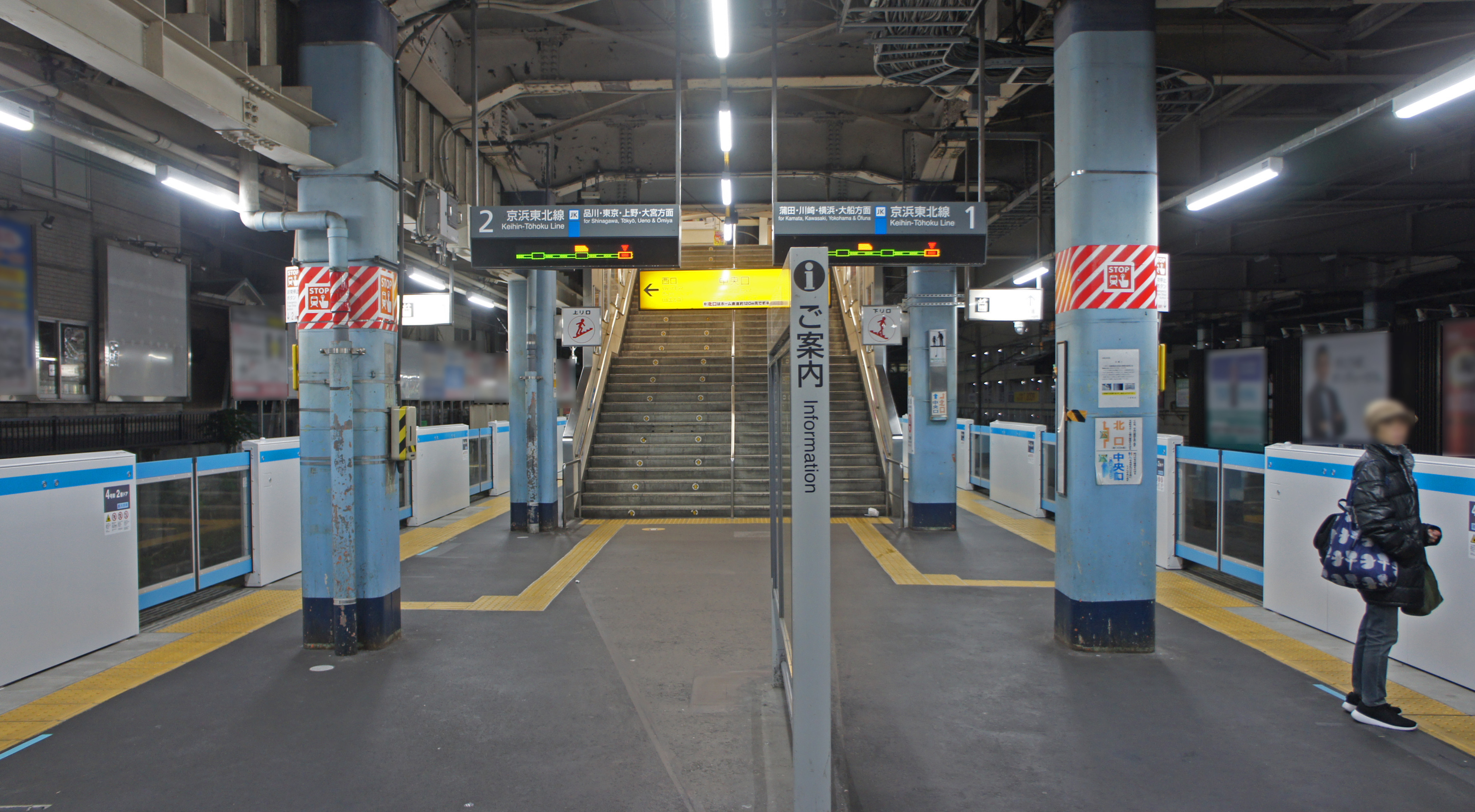 Platform of JR Omori Station